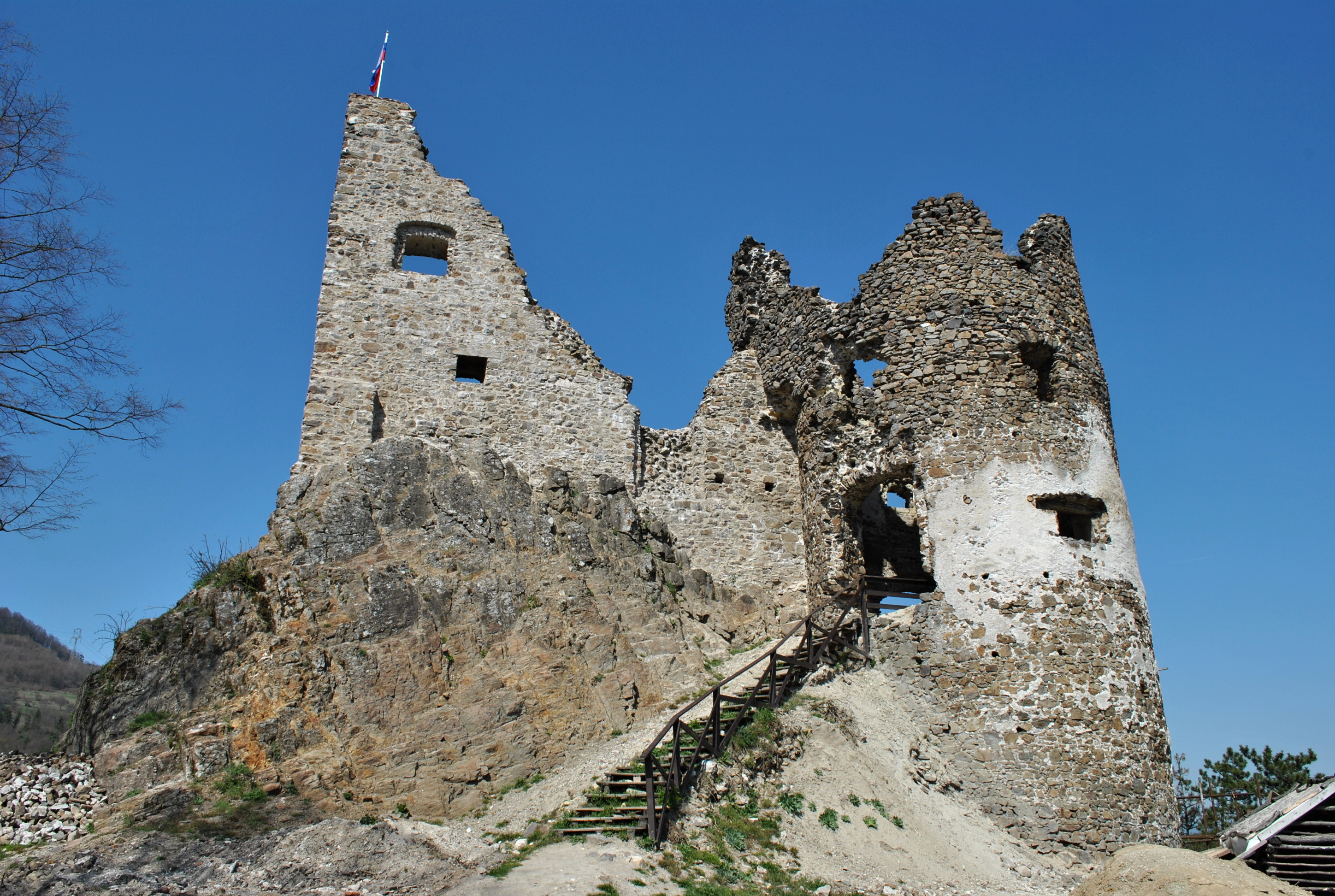 Revište castle, ruins of tower